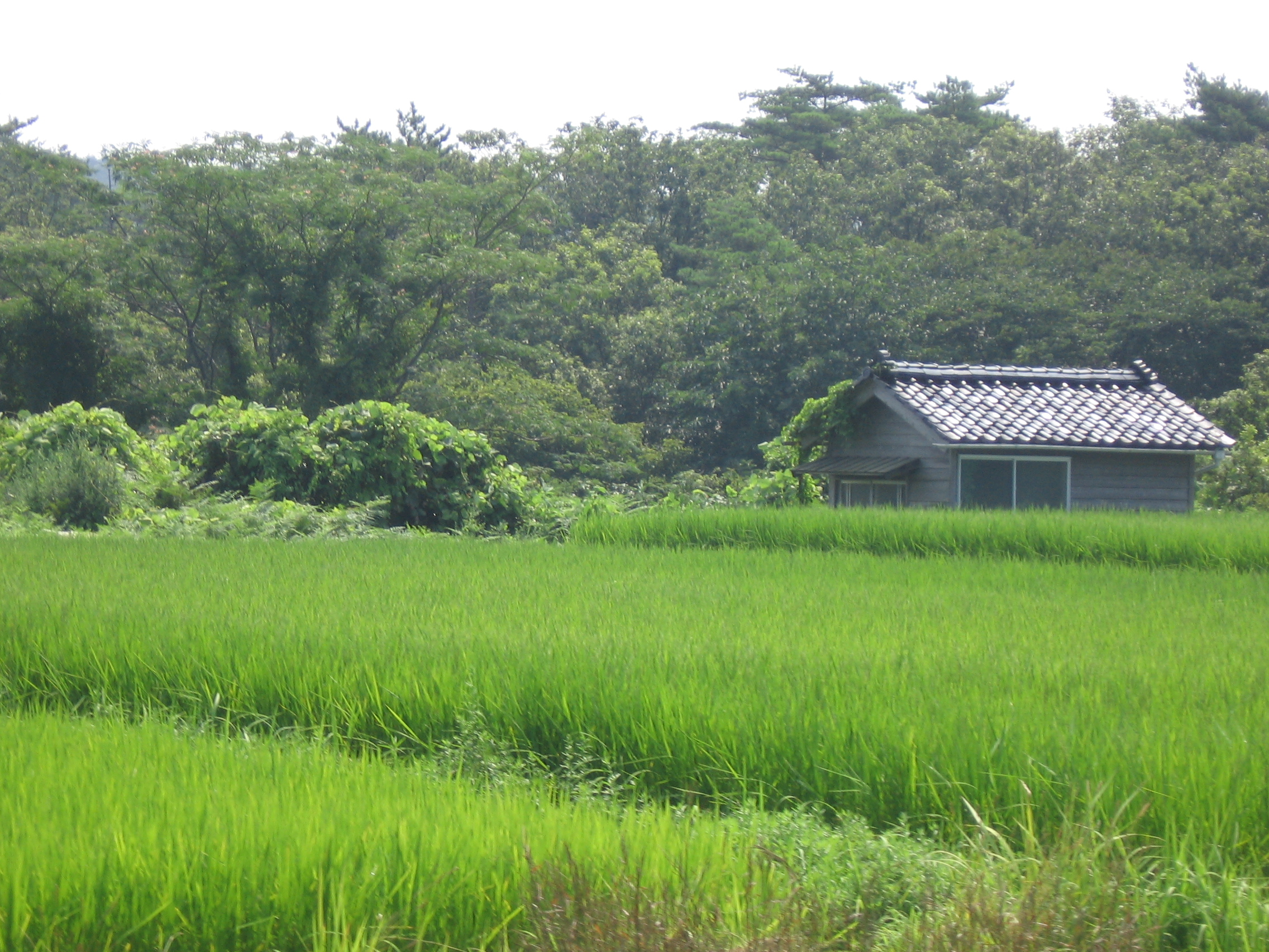 Paddy field